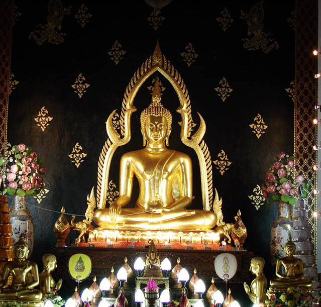 wat_prabathmingmuangworavihan